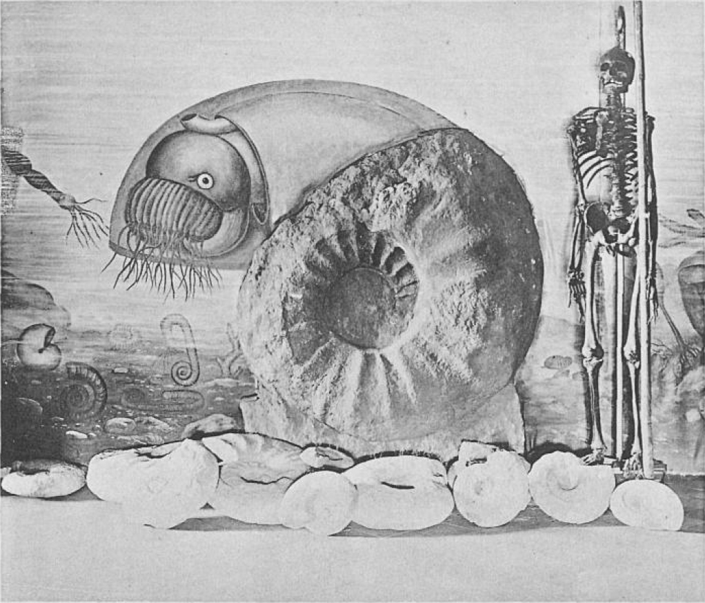 Original German description from Landois (1895:108)